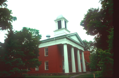 Front of the Yates County Courthouse, located at 415 Liberty Street in Penn Yan, New York, United States. Built in 1835, it is part of the Yates County Courthouse Park District, a historic district that is listed on the National Register of Historic Places.